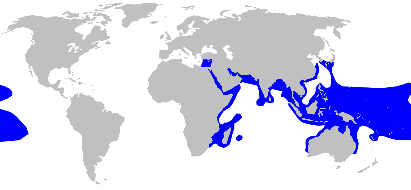 Distribution map for Carcharhinus melanopterus